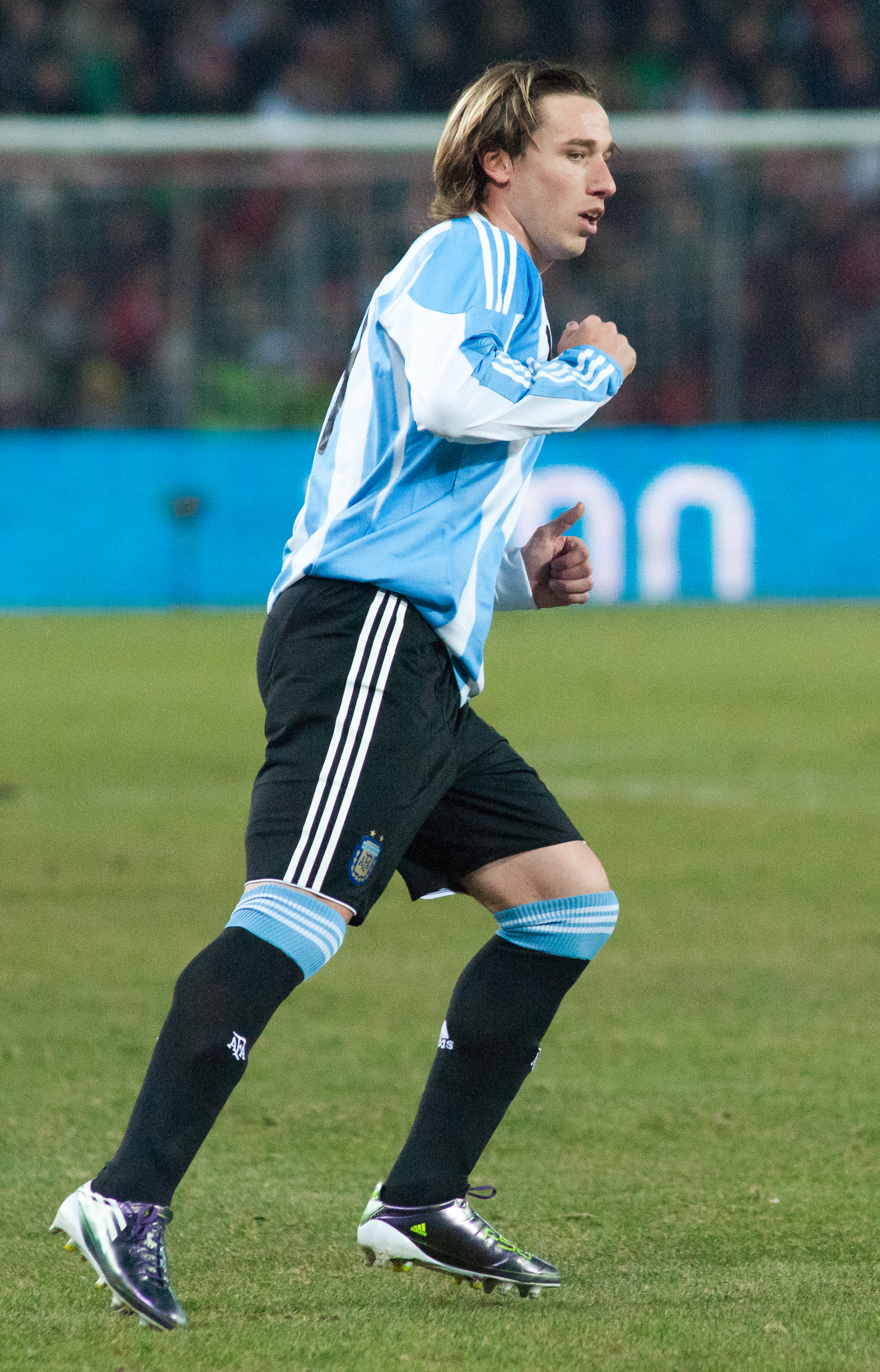 The making of this document was supported by Wikimedia CH. (Submit your project!) For all the files concerned, please see the category Supported by Wikimedia CH. Portugal vs. Argentina, 9th February 2011